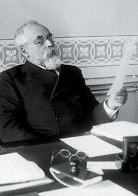 Sergej Andreevitsch Muromzev (1850-1910) first president of russian duma (1906)